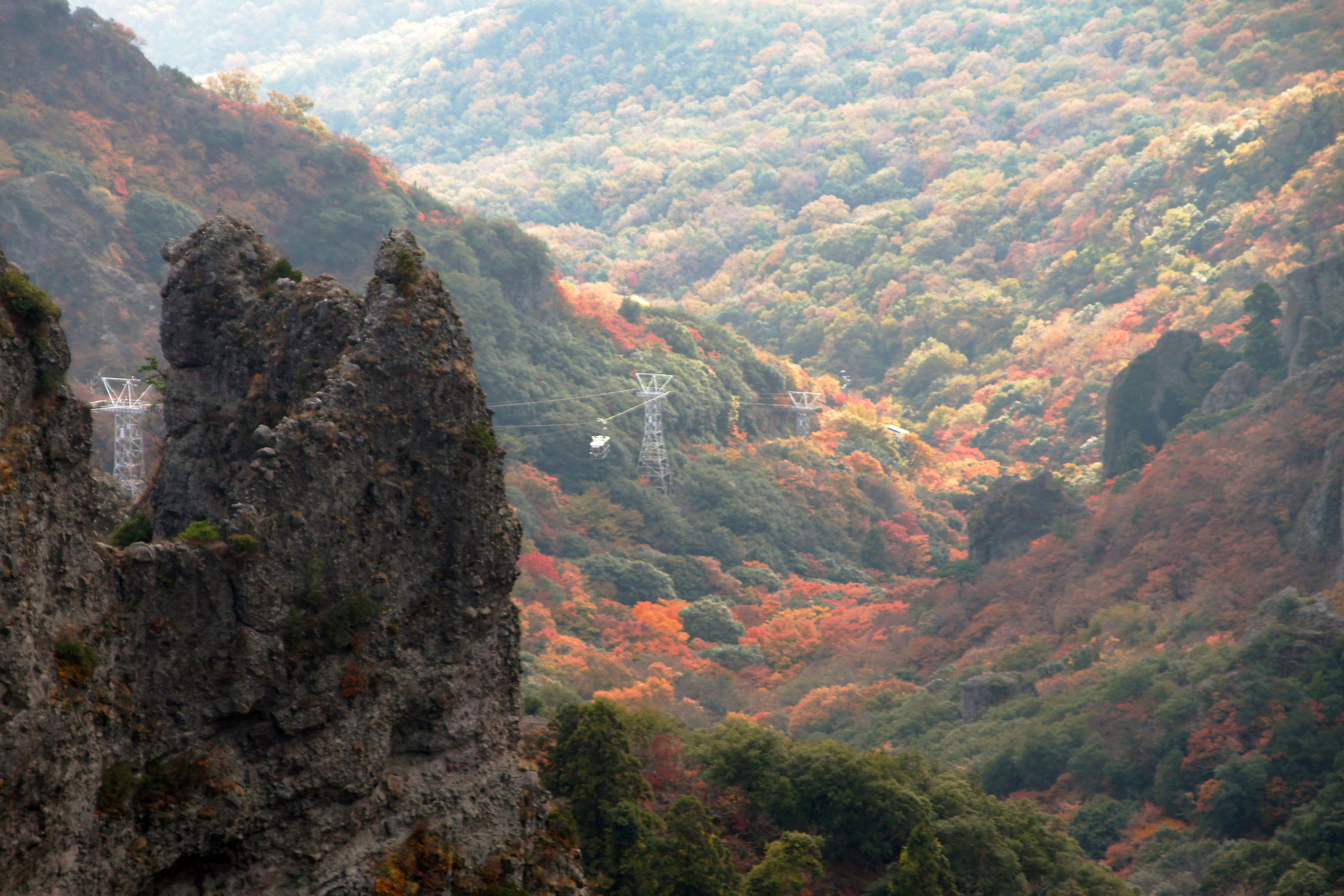 Kankakei in Shodoshima, Kagawa Prefecture, Japan